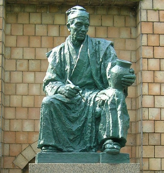 Statue of Katō Tamikichi, Potter of Owari province. Edo Period. Loc: Kamagami Jinja, Seto city, Aichi Prefecture, Japan. 加藤民吉の銅像。 撮影場所 愛知県瀬戸市・窯神神社